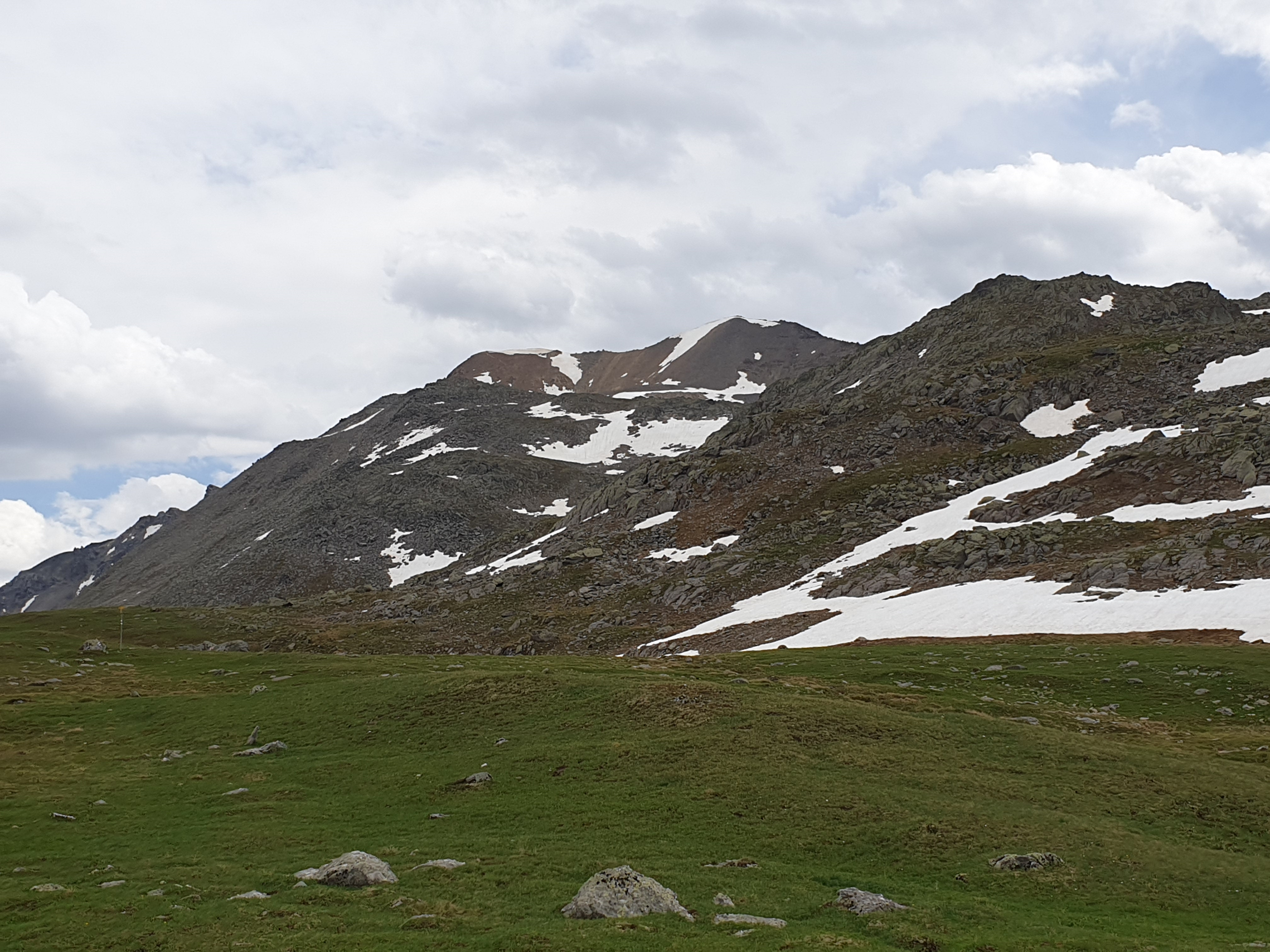 Piz Turettas and Piz Chazforà, picture taken from Lai da Chazfora (Val Müstair, Grison, Switzerland)